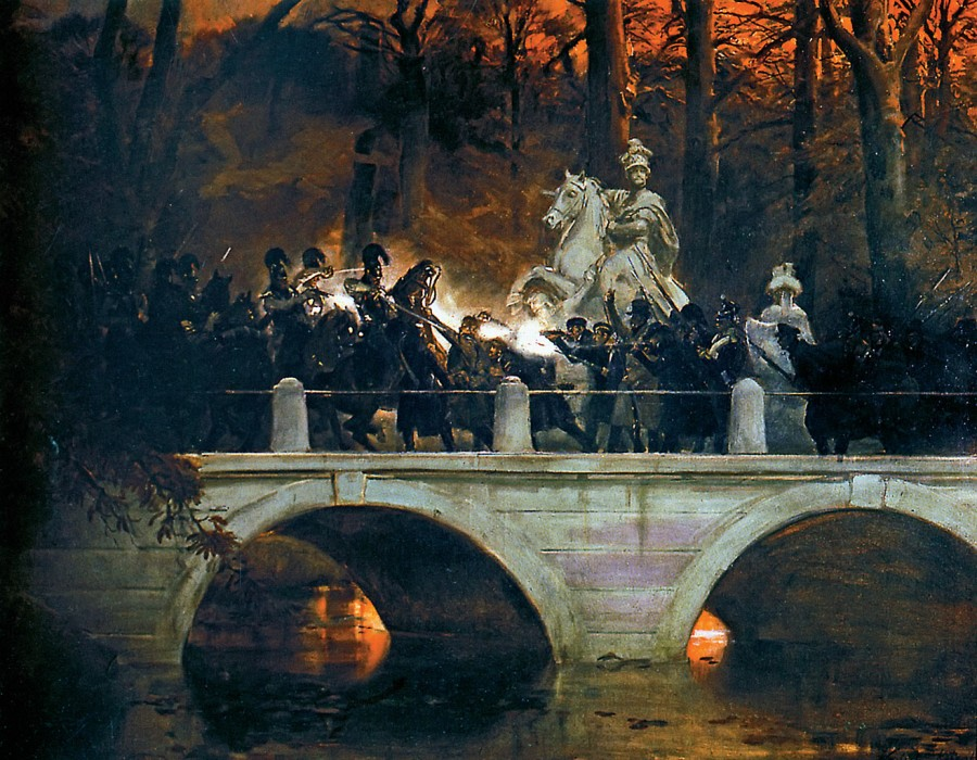 Uprosing